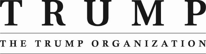 This is the logo of The Trump Organization.